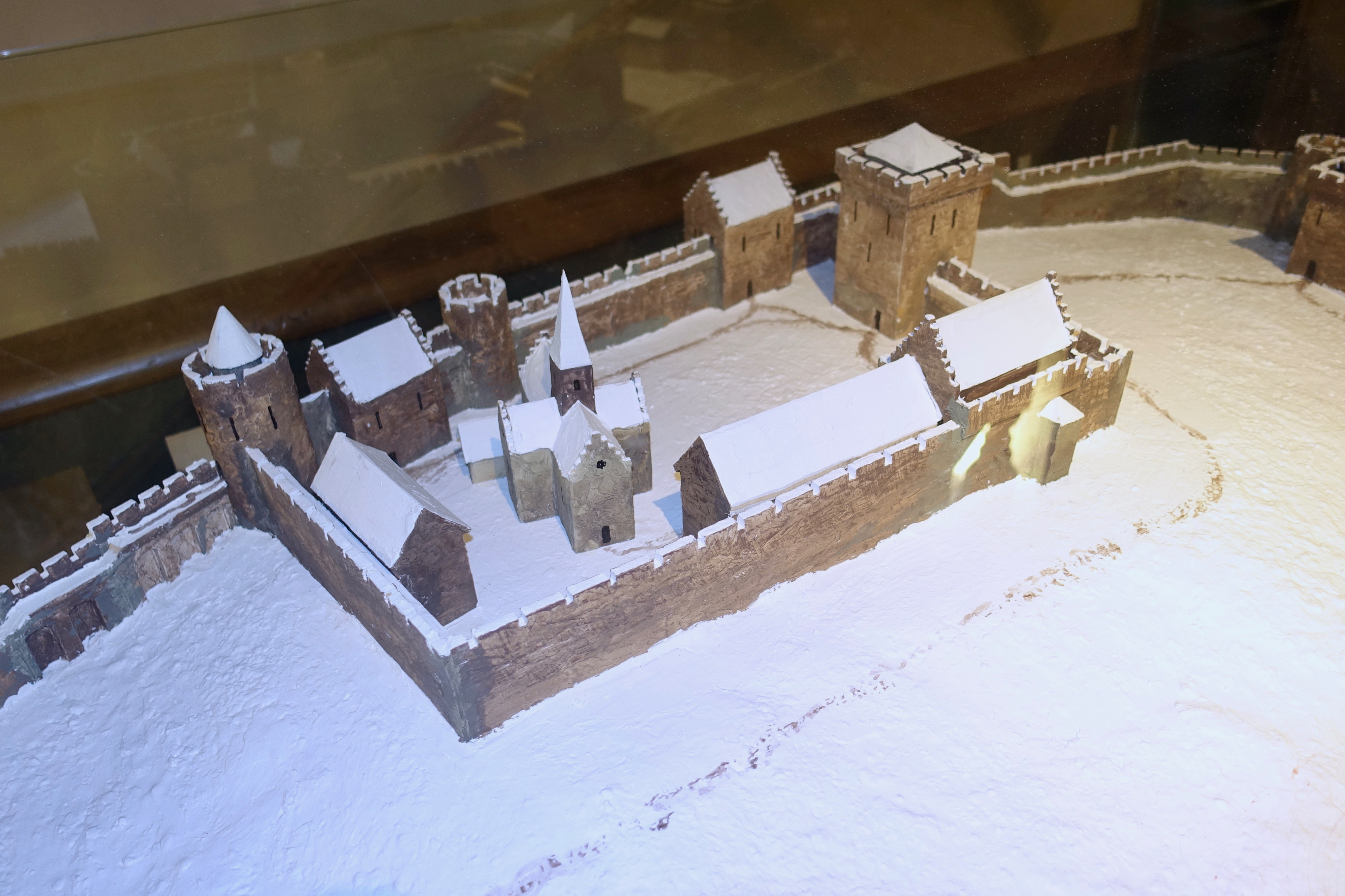 Model of the Tunsberghus Fortress, founded ca. 1000, burned down in 1503, on the Slottsfjellet Mountain in Tønsberg, Norway's oldest town, founded in 871. Exhibition model by Major Andreas Hauge on display at the Armed Forces Museum of Norway at Akershus Fortress in Oslo, Norway. Photo taken on 2019-03-31